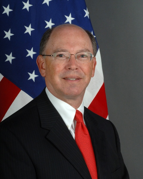 US Department of State portrait of Alejandro D. Wolff, United States Ambassador to Chile.